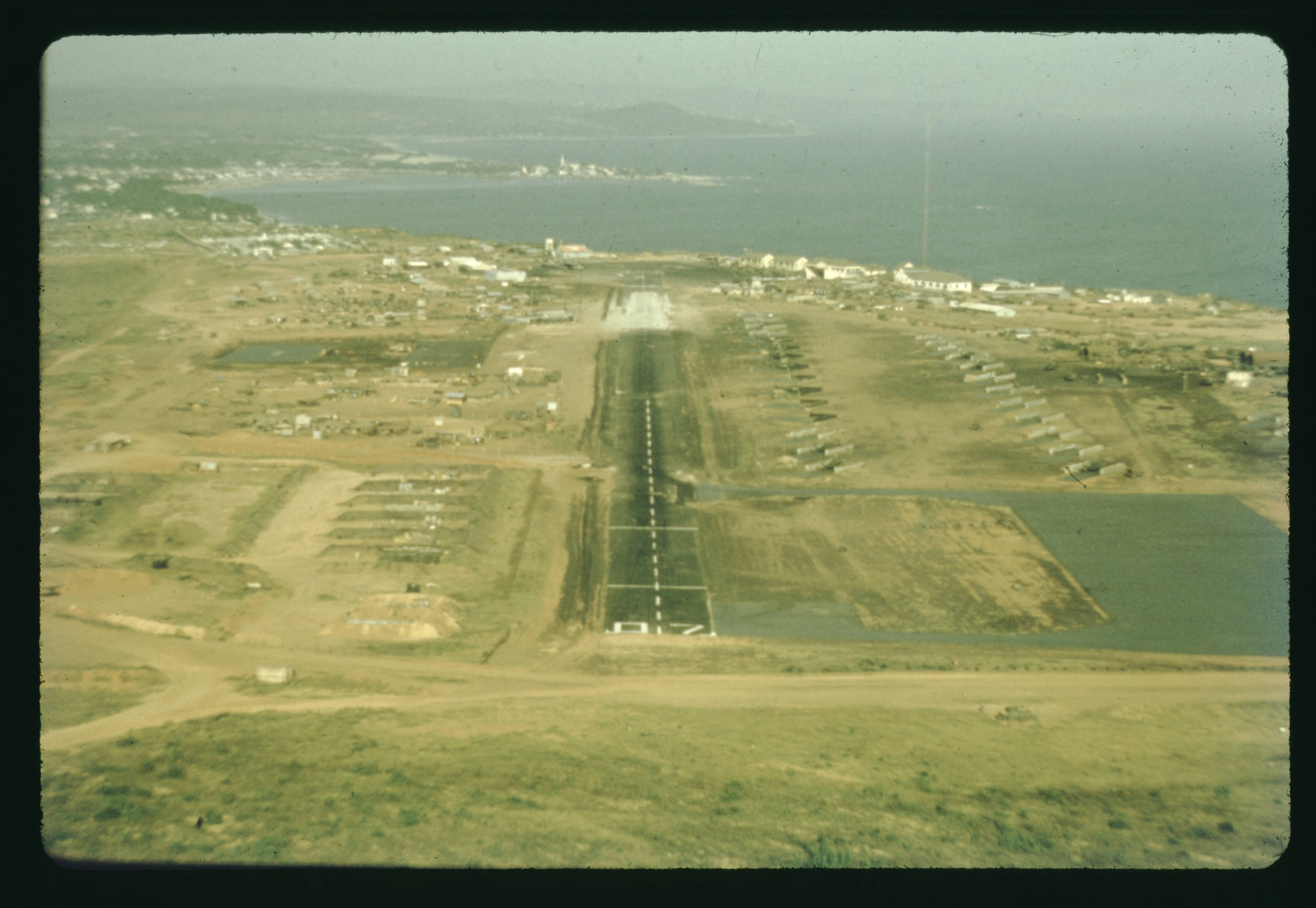 Repairing surface deterioration at Phan Thiet airfield was one of the first missions of the 116th Engineer Battalion.